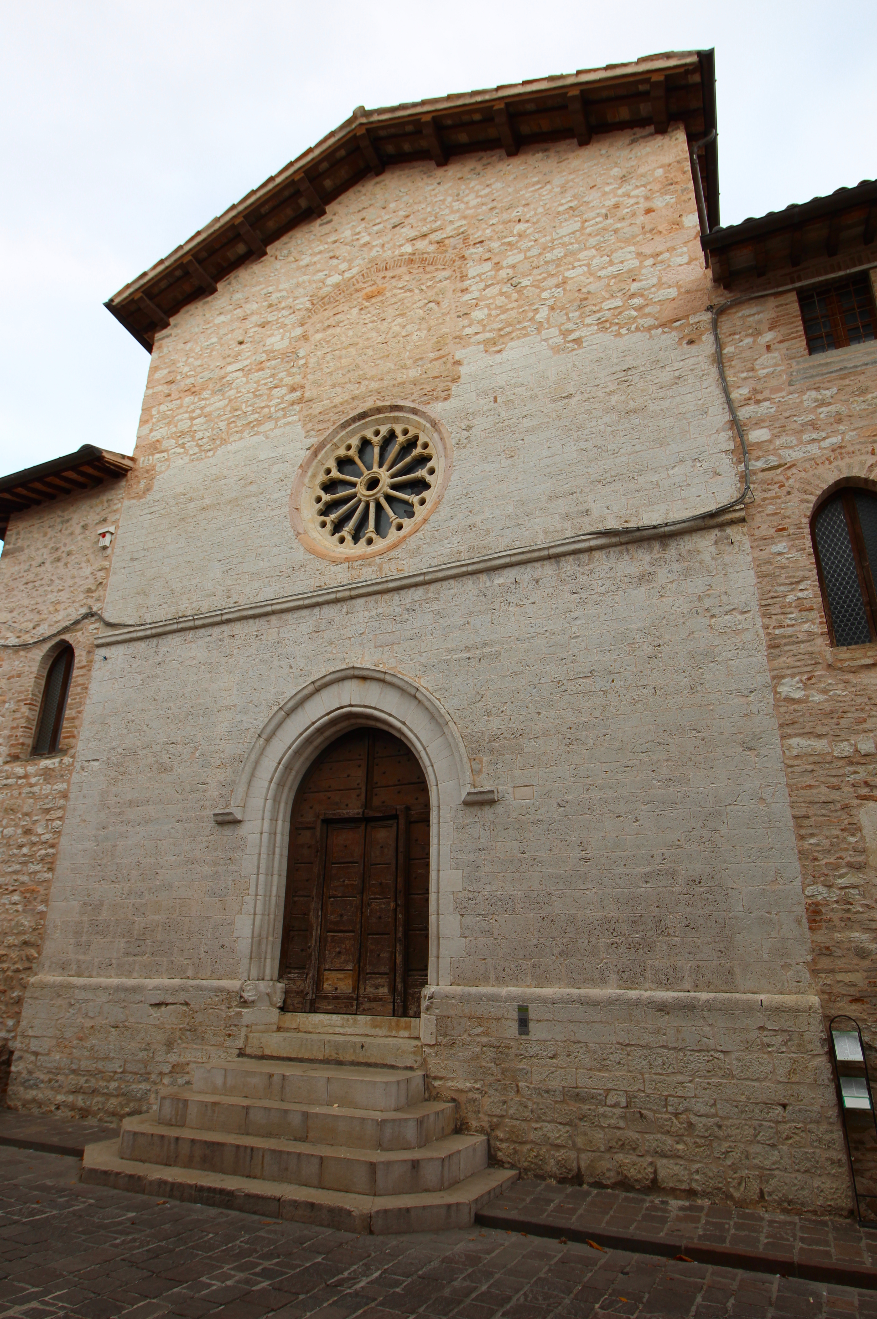 church San Francesco, Costacciaro, Province of Perugia, Umbria, Italy